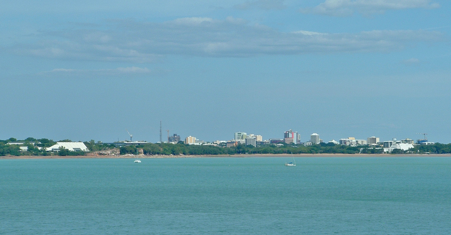 Darwin city skyline from East Point Reserve.